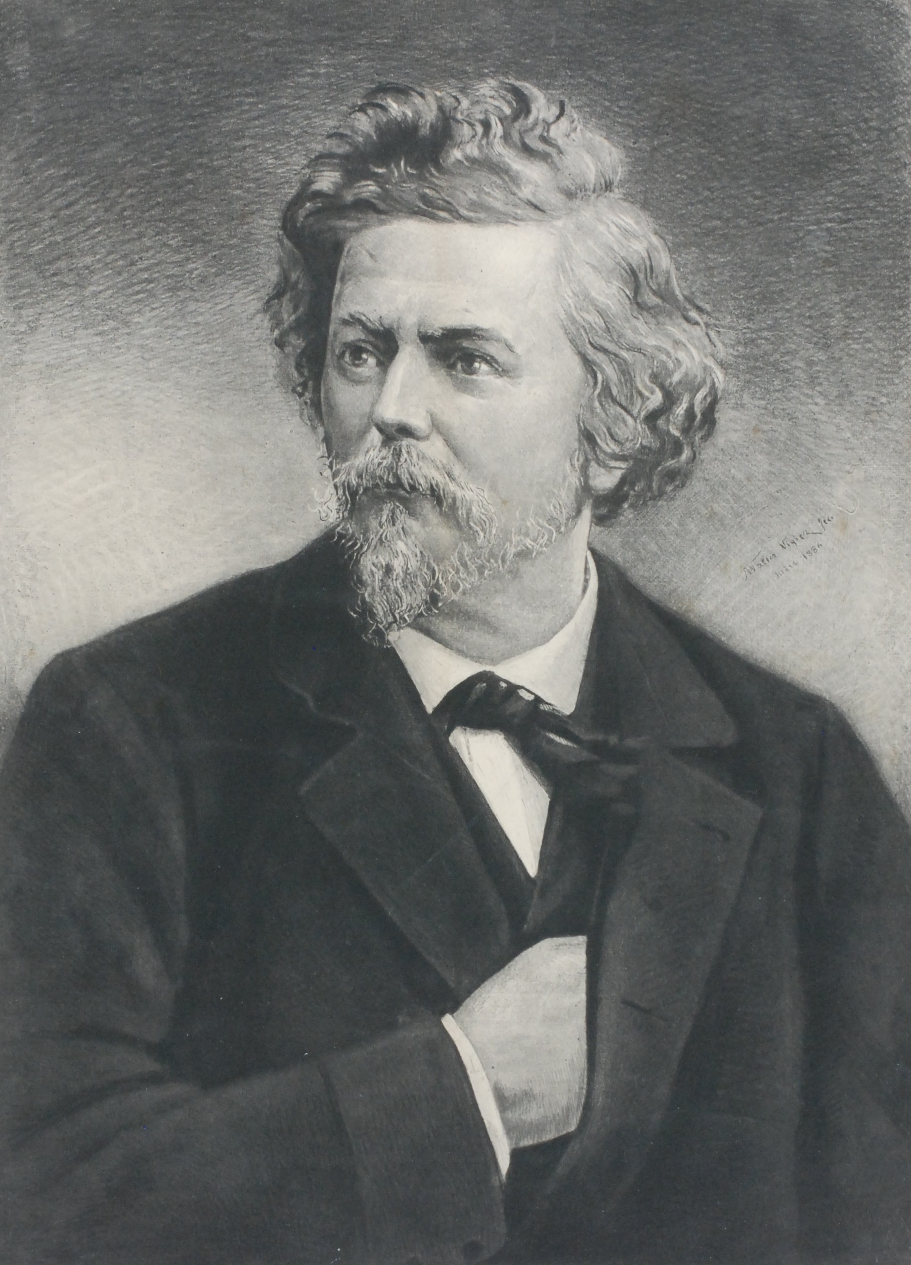 Swiss liberal politician Wilhelm Vigier (1823-1886). Photogravure (German Heliogravüre, studio M. Girardet, Berne) of a drawing by Walther Vigier (painter, 1851-1910), Wilhelm Vigier's son. Cropped from File:Wilhelm-vigier.jpg.